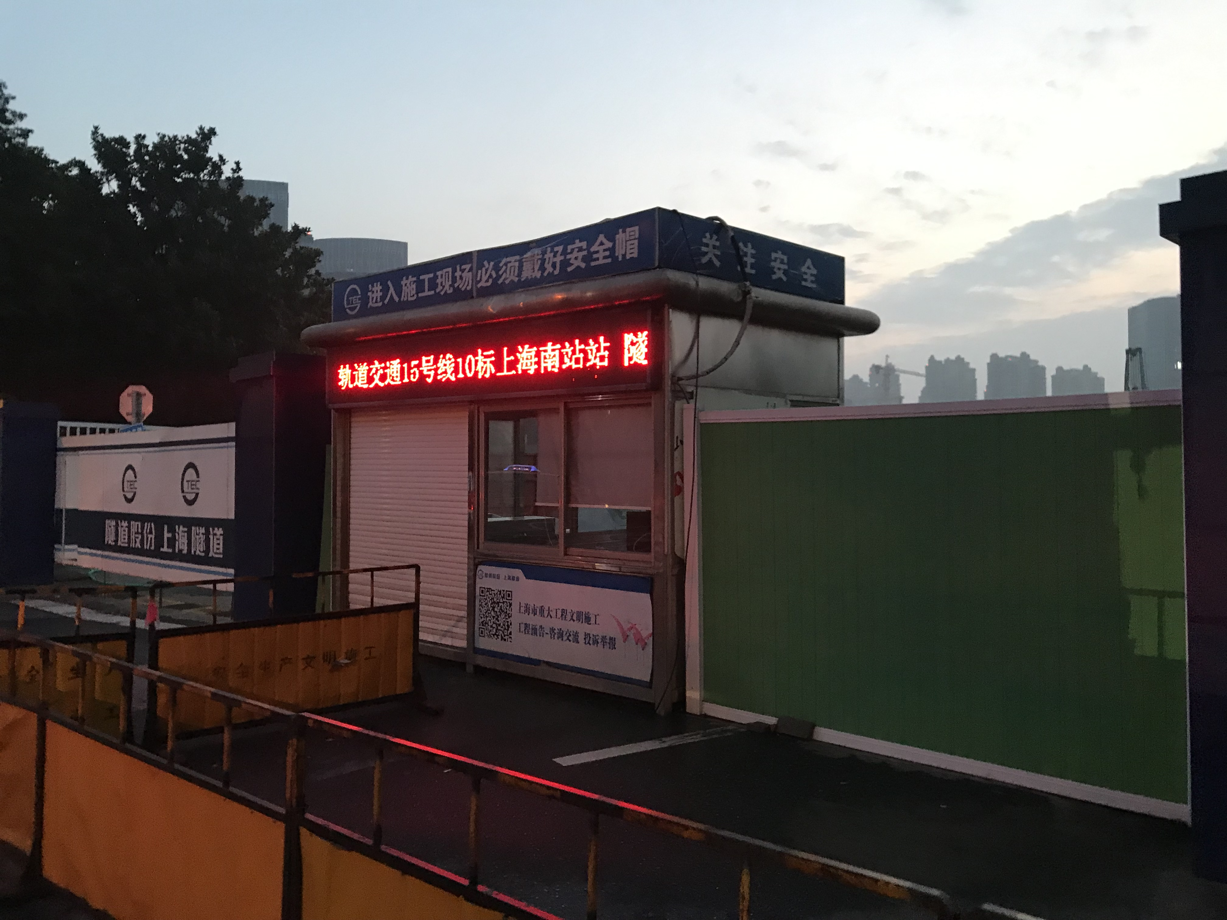 201907 L15 South Shanghai Railway Station under Construction